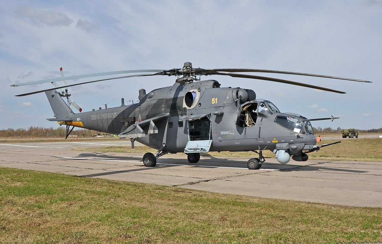 Mil Mi-35M (51 yellow)